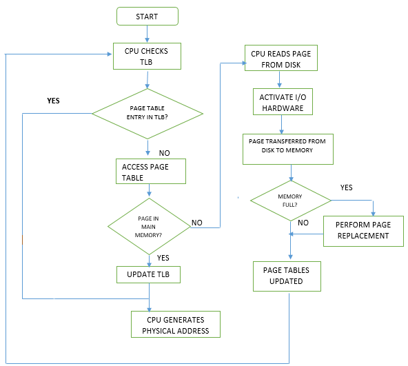 Steps involved in Paging and TLB